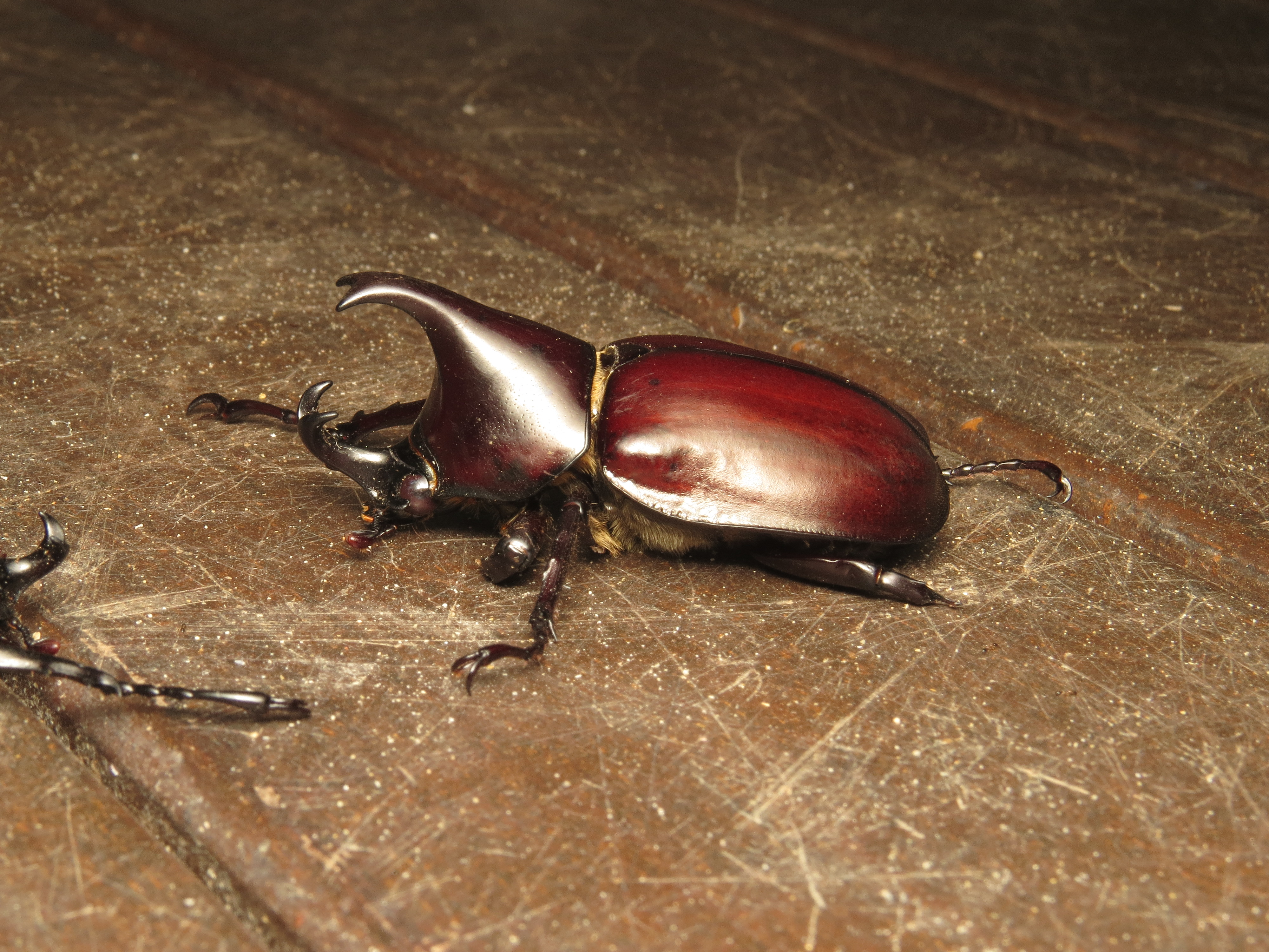 Xylotrupes ulysses Guérin-Méneville, 1830, male, to actinic light, Clump Point, Mission Beach, QLD, 24/25 November 2014